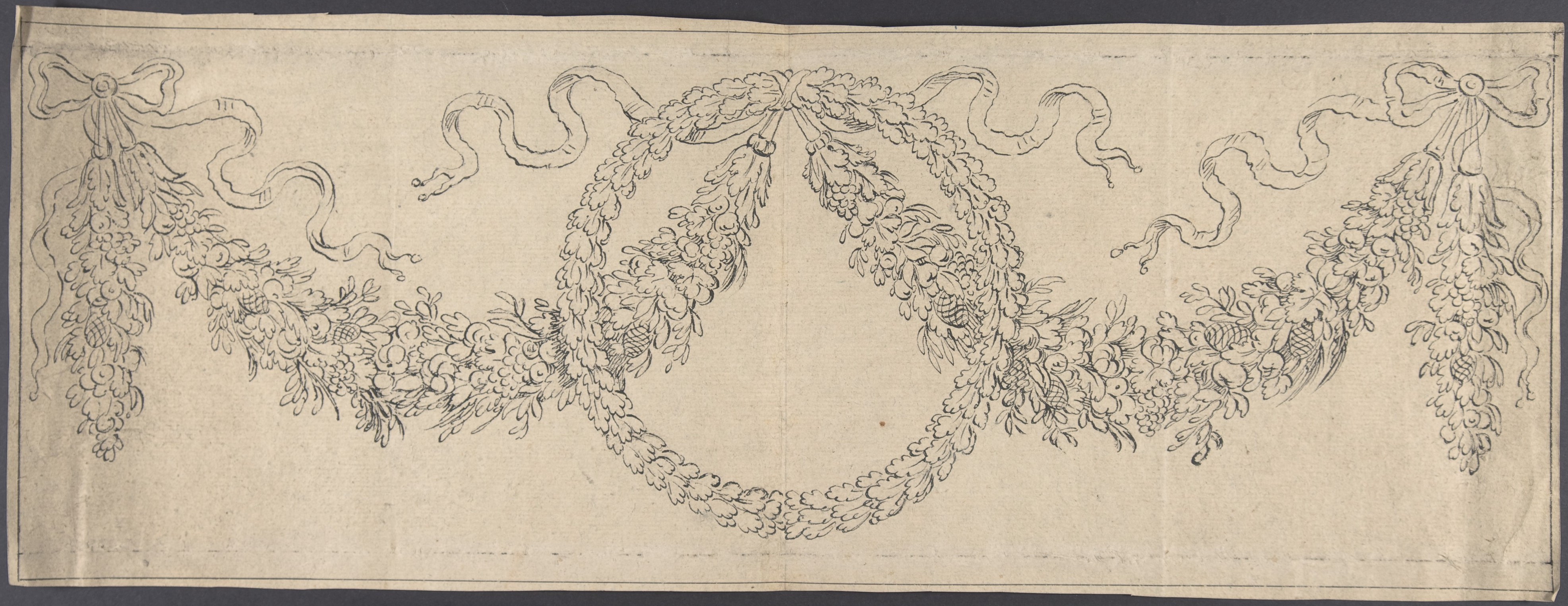 Drawing ; Ornament and Architecture; Drawings